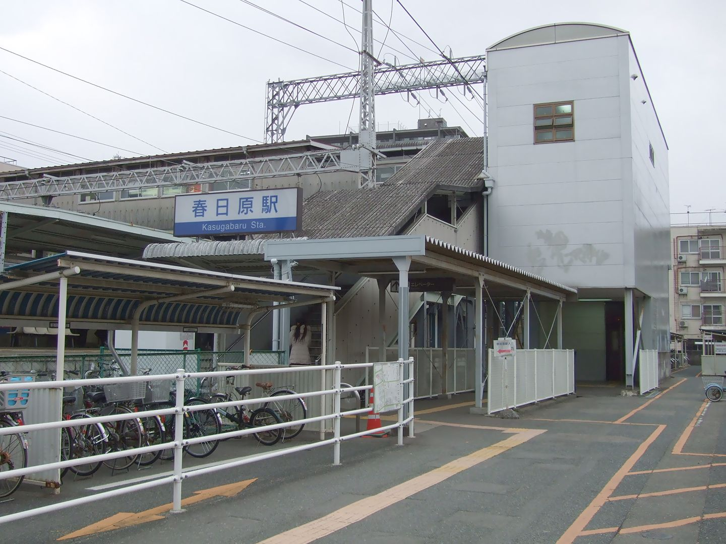 Nishitetsu Tenjin Omuta Line Kasugabaru Station (eastside entrance)